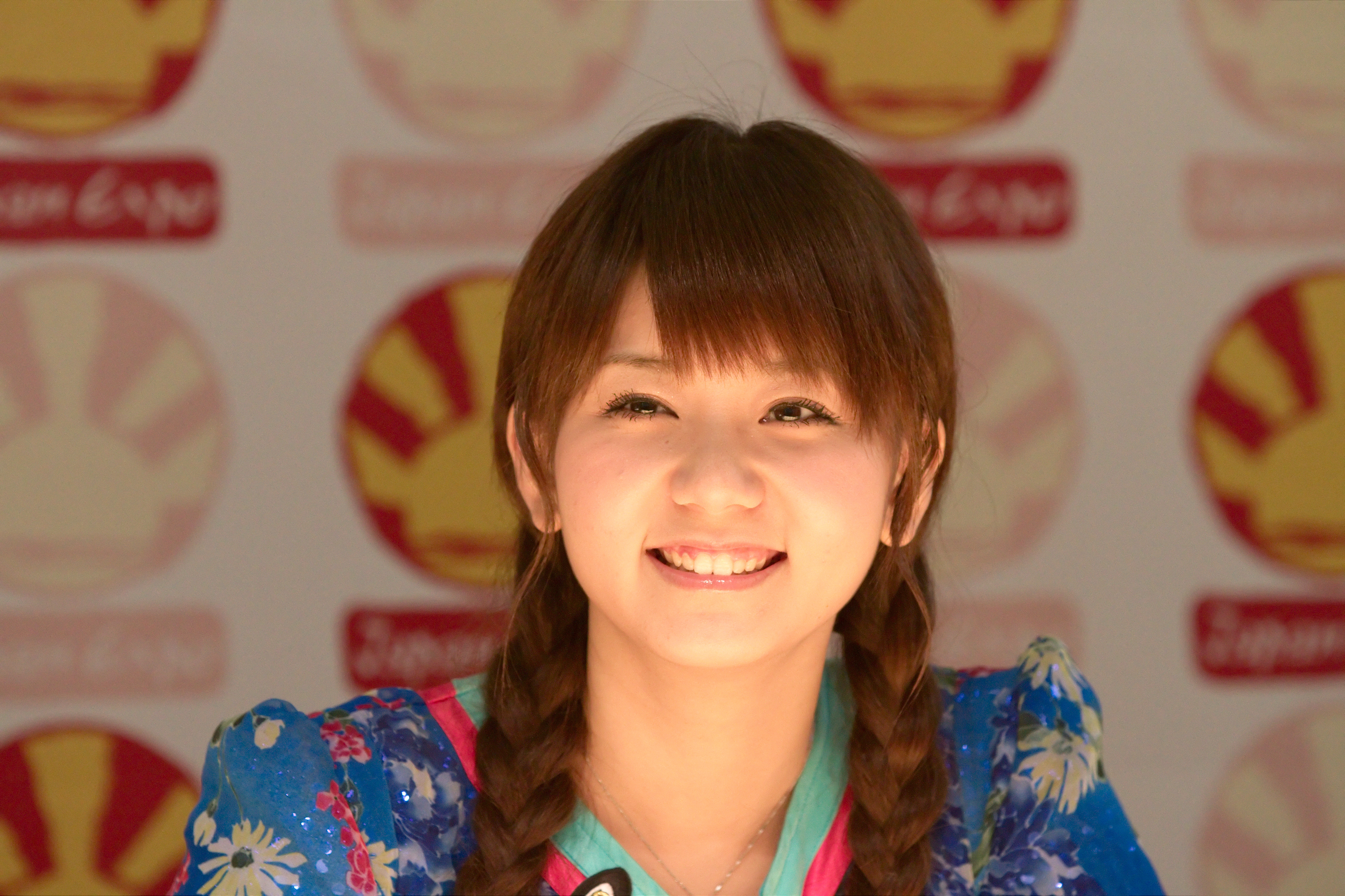 Jun Jun of Morning Musume during autograph session at Japan Expo, Sunday, July 03, 2010 (Paris, France).